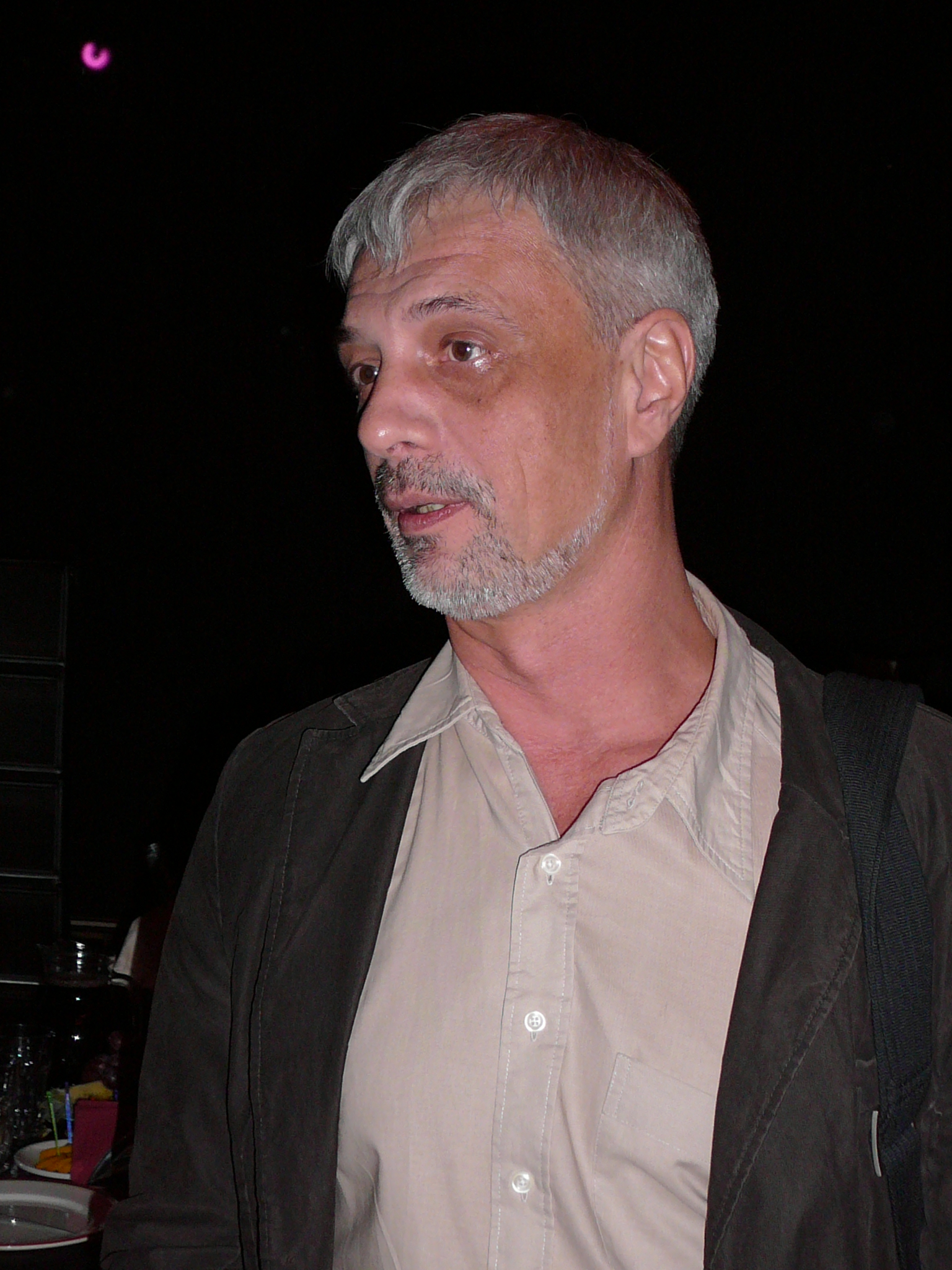 Sergey Korzun, co-founder and 1st editor-in-chief of Echo of Moscow.